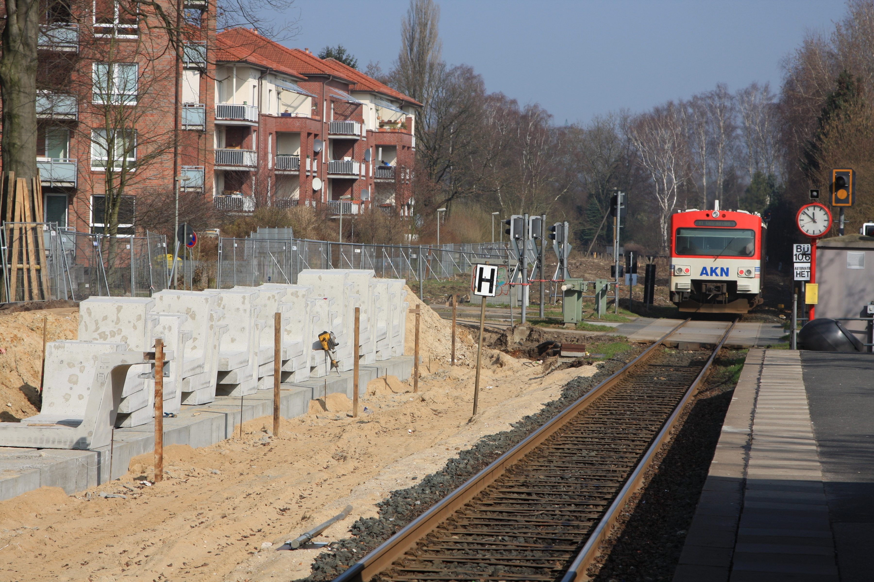 Station Burgwedel of the AKN Railways, during construction of the dual track and the second platform, a LHB VT 2E entering the station